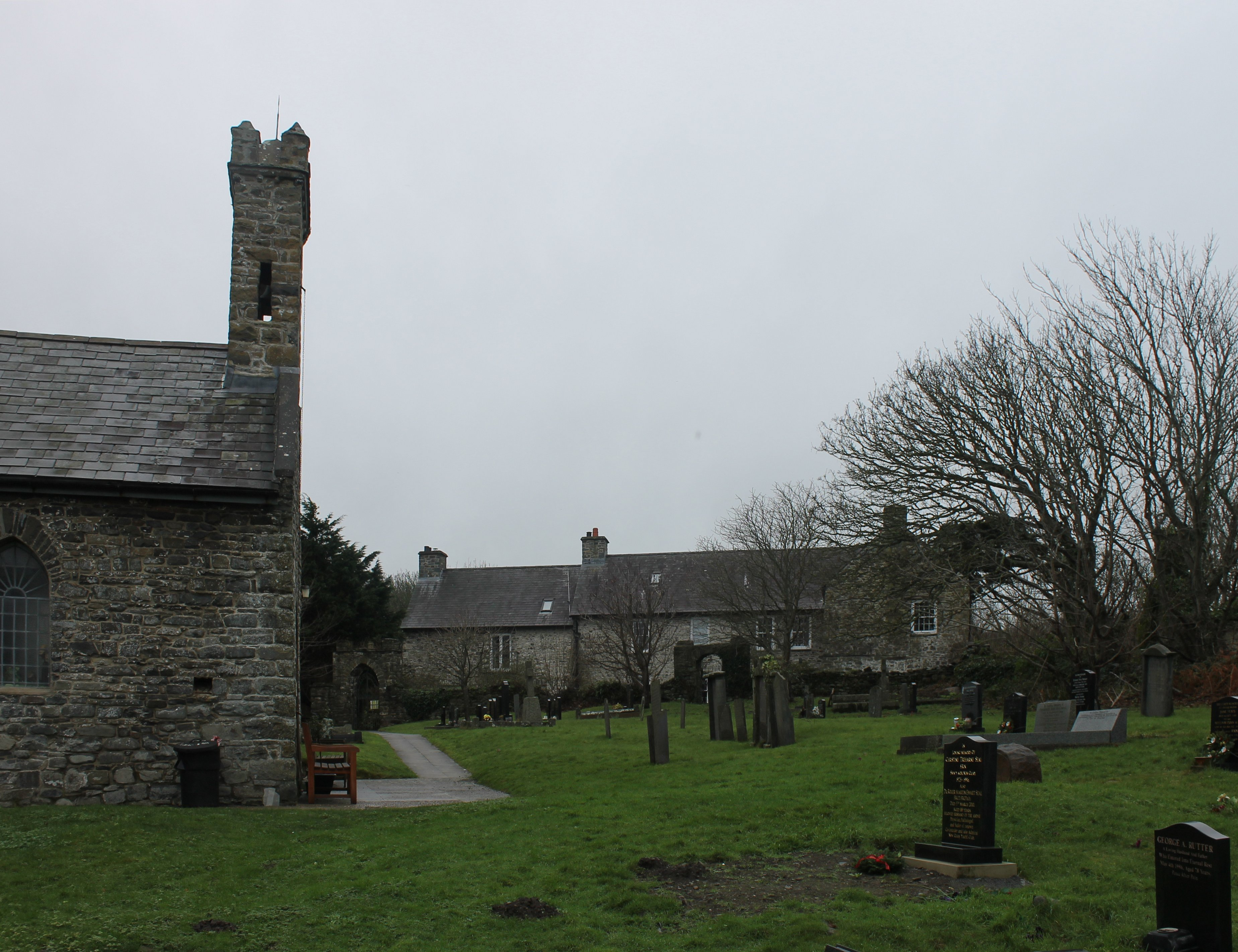 The church of Llanina, near Ceinewydd (New Quay), Ceredigion.